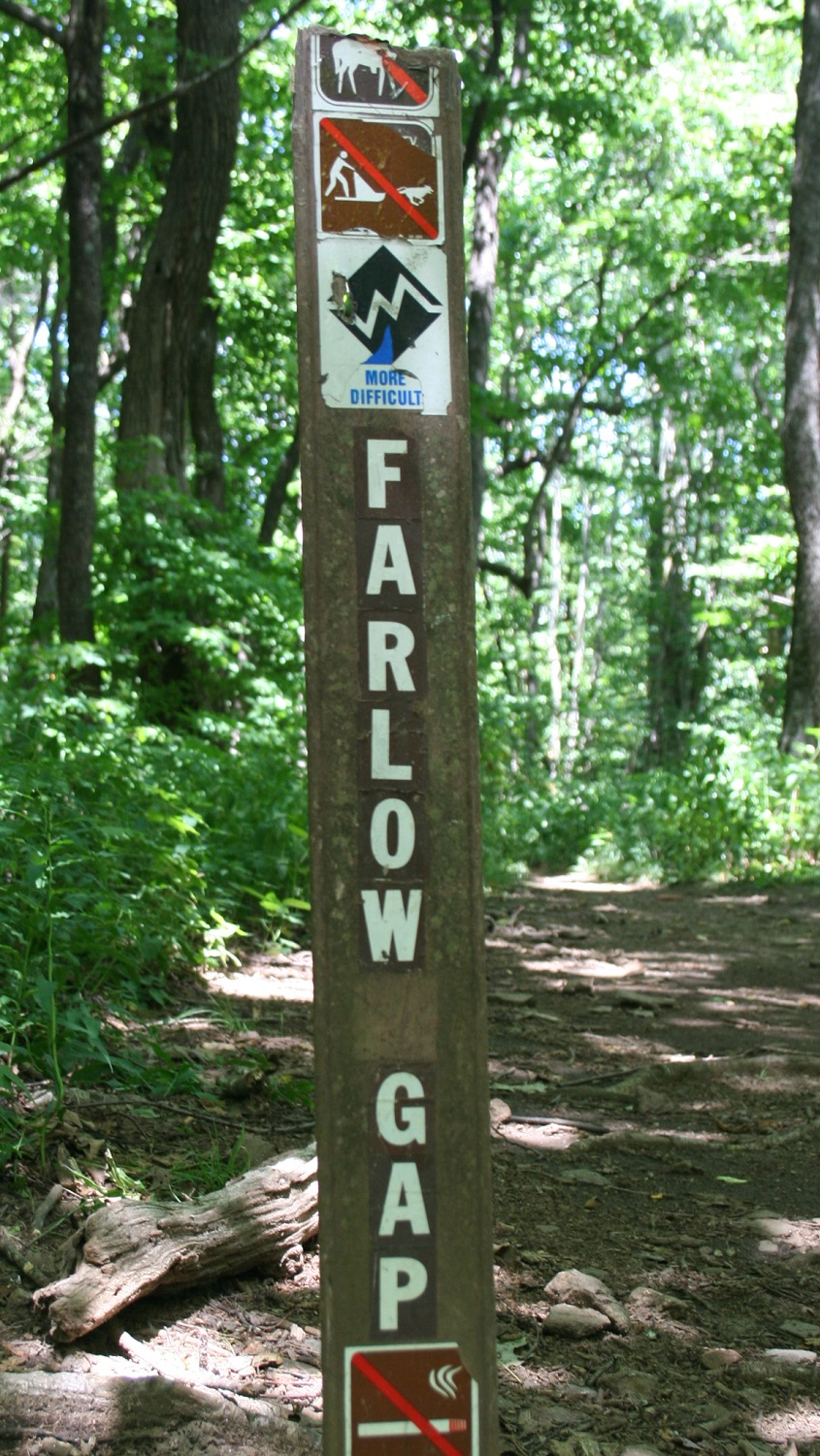 Sign at Farlow Gap trailhead. The trailhead can be reached either after a long uphill climb, or by shuttle.